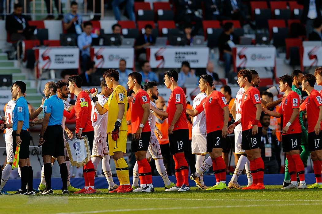 South Korea & Bahrain Round of 16, 2019 AFC Asian Cup